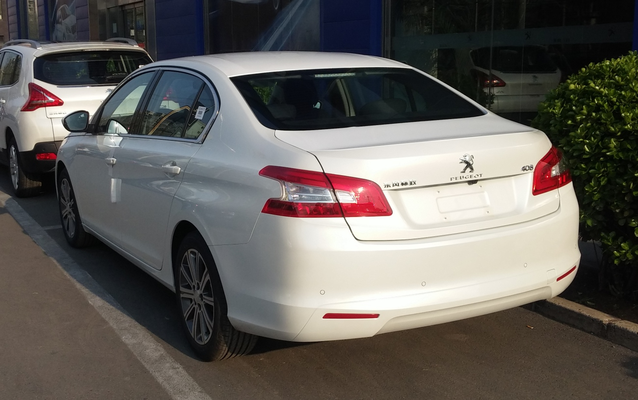 Peugeot 408 II photographed in Beijing, China.